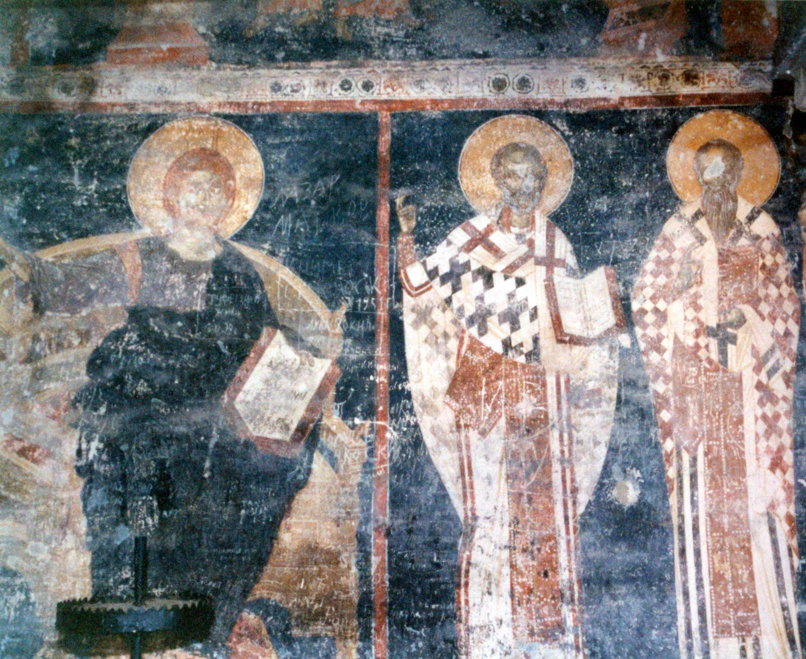 Zaum Fresco